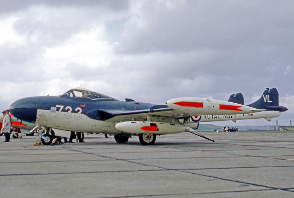 De Havilland 112 Sea Venom FAW.22 XG729 of the Airwork Fleet Requirements Unit at RAF Chivenor in 1969